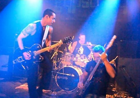 Gypsy Fly performs at the Double Door in Chicago on May 18, 2011.